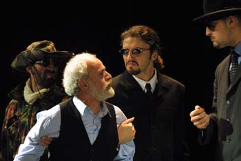 Picture of larlet